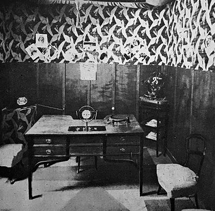 Audio room